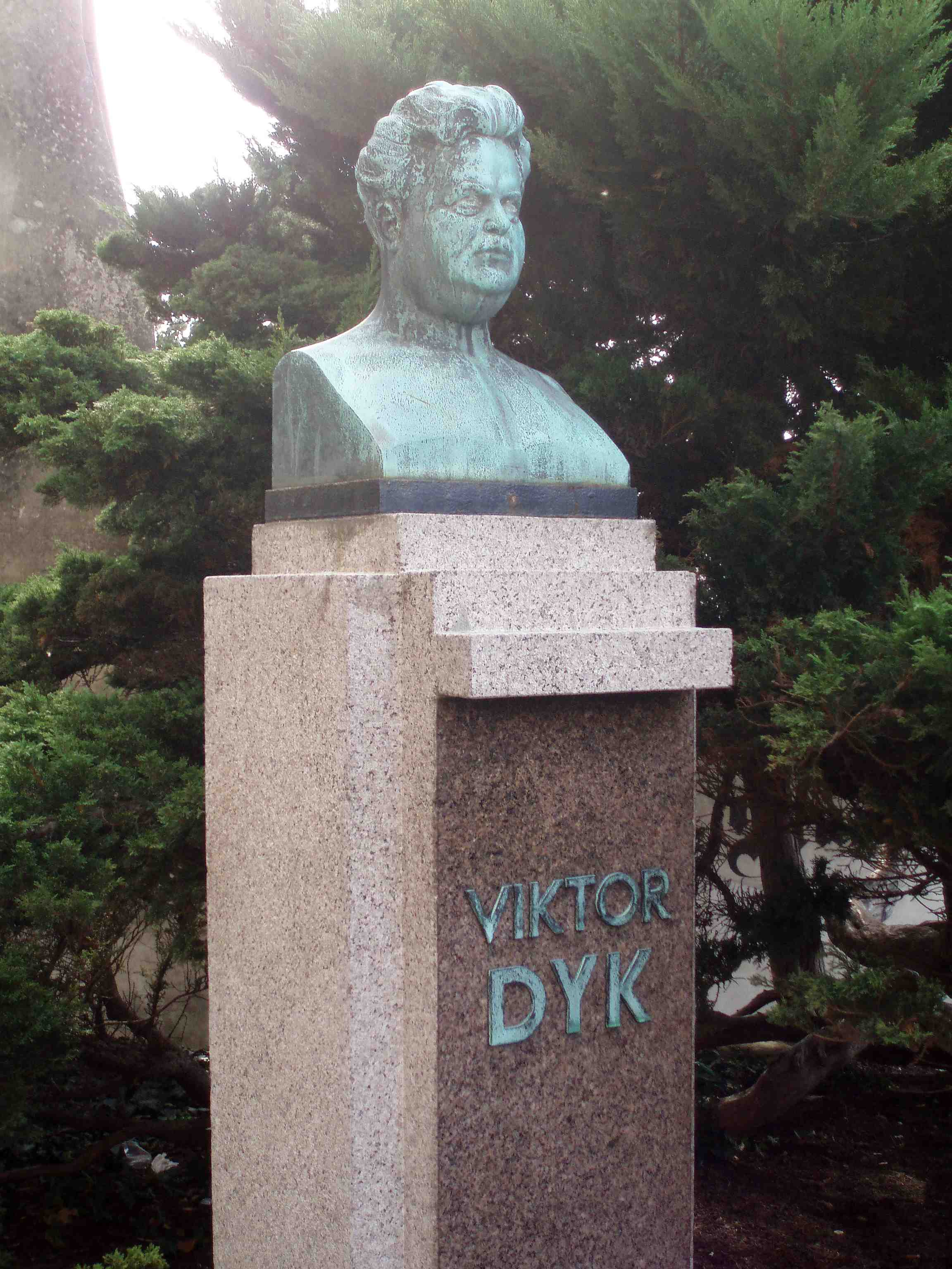 Memorial of Viktor Dyk from J. Jílek, built in Mělník in 1934